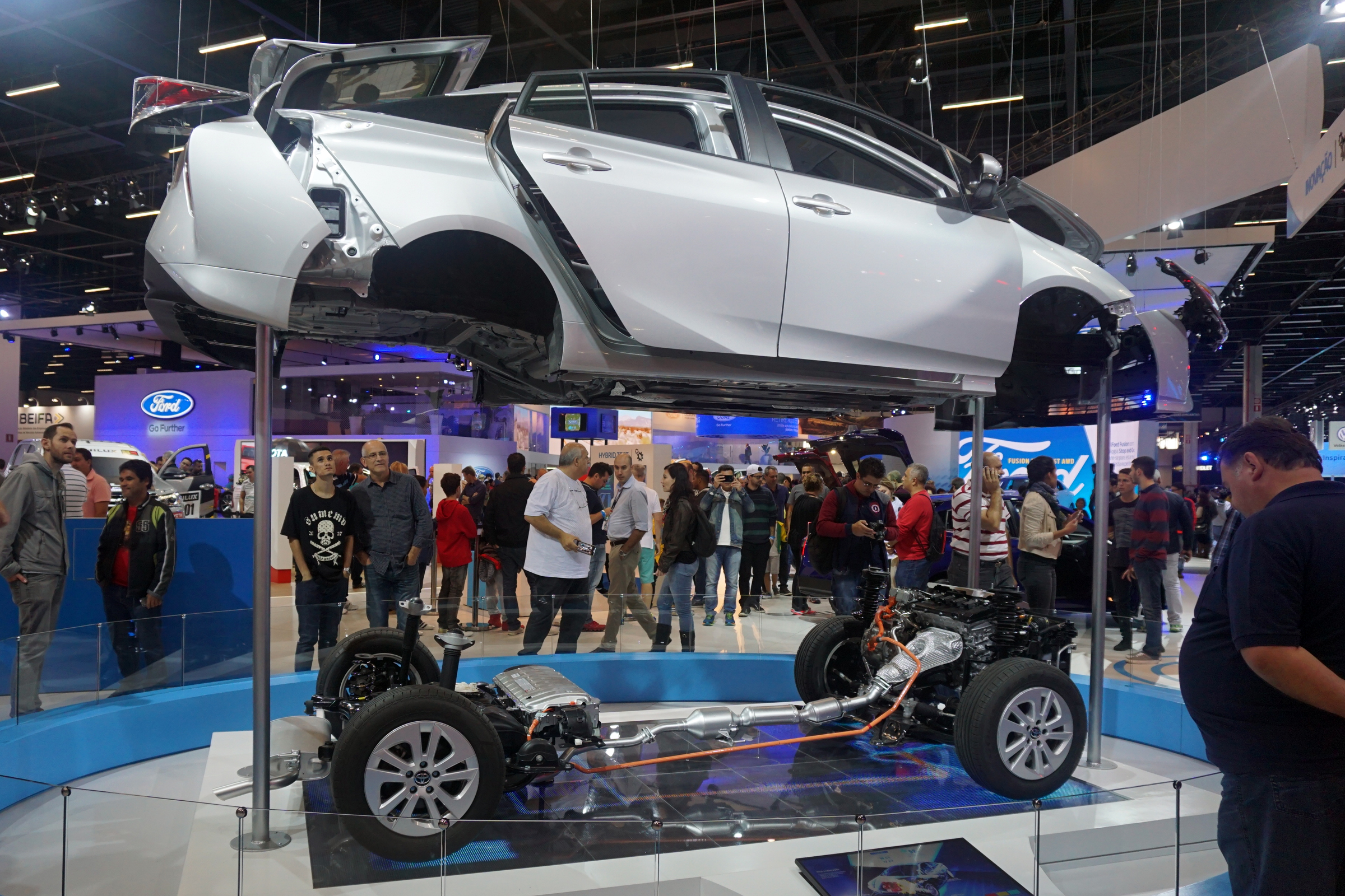 2016 Toyota Prius (fourth generation) hybrid car exhibited at the Salão Internacional do Automóvel 2016 São Paulo, Brazil.